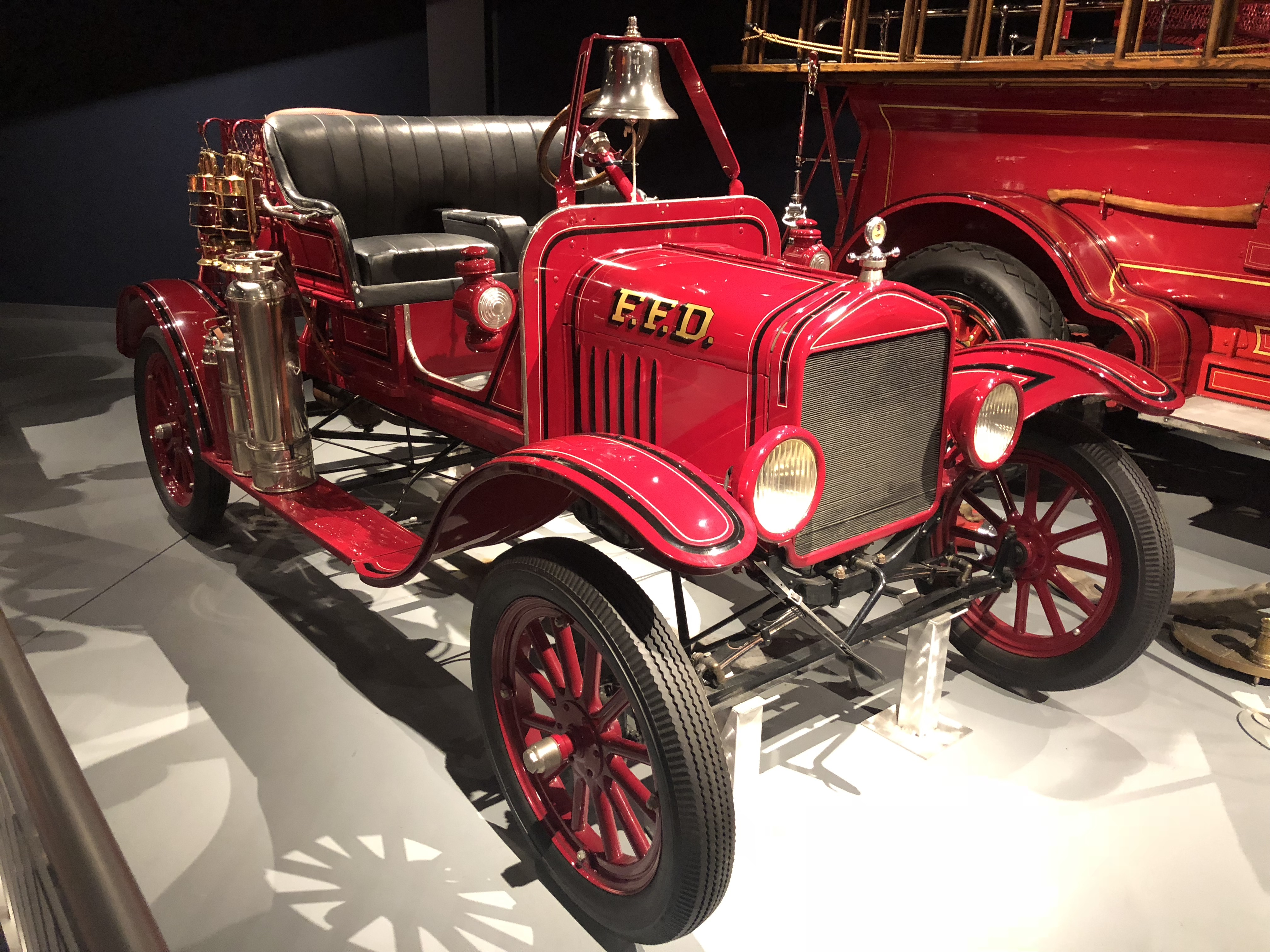 The American LaFrance company commercially purchased over 900 Model T's for modification as fire fighting vehicles.